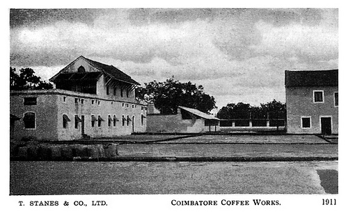 View of the Coimbatore Stanes Coffee Curing Works in 1911. The Coimbatore Stanes Coffee Curing Works, established in 1861, is still in operation. Located in Trichy Road in Coimbatore the big open yard, trees and a tall chimney still stand to this present day. It is now known as T. Stanes & Co.